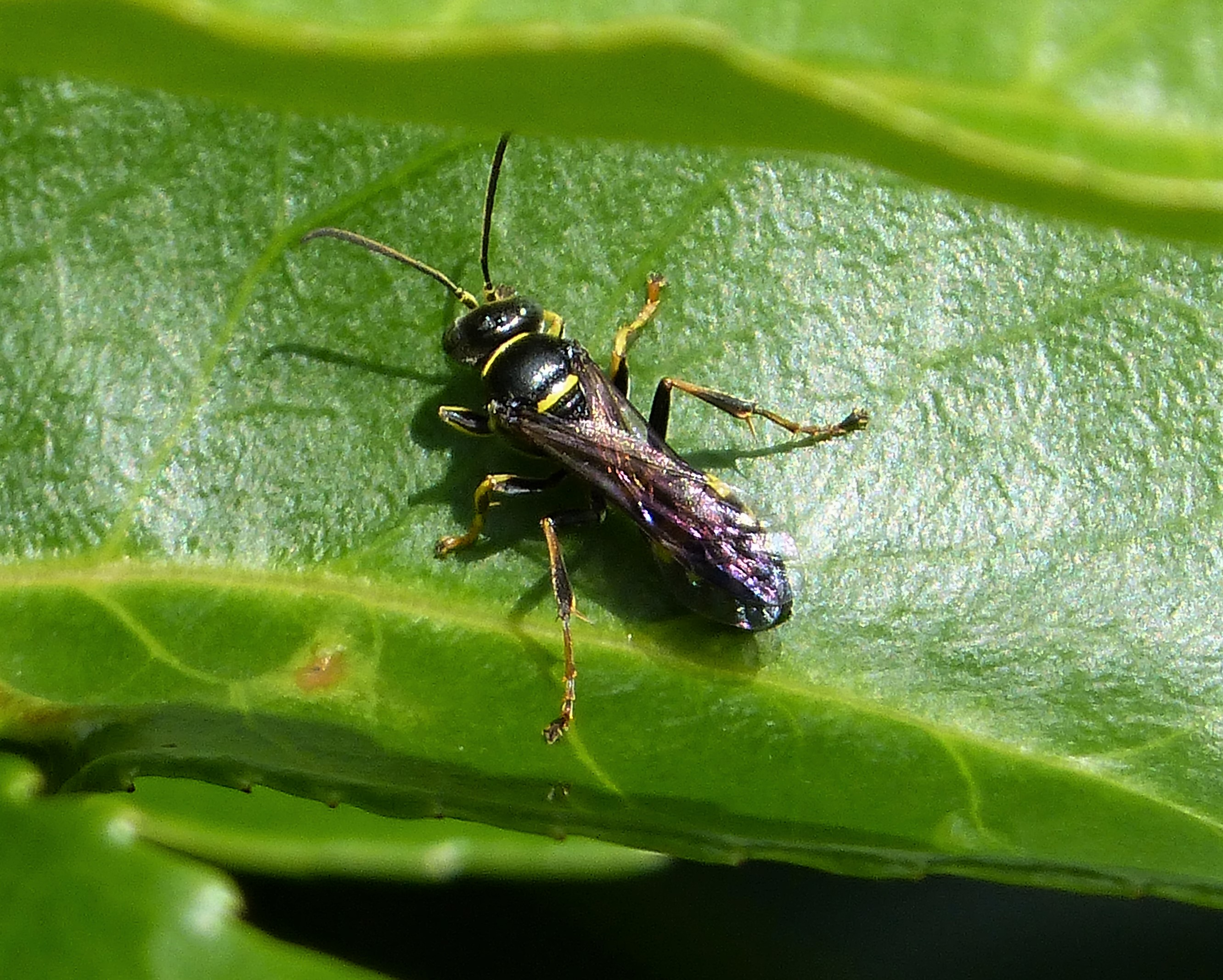 Listed as Notable B by Falk (1991) (now known as Scarce (Nb)) SO729470. Cradley, Malvern Worcs